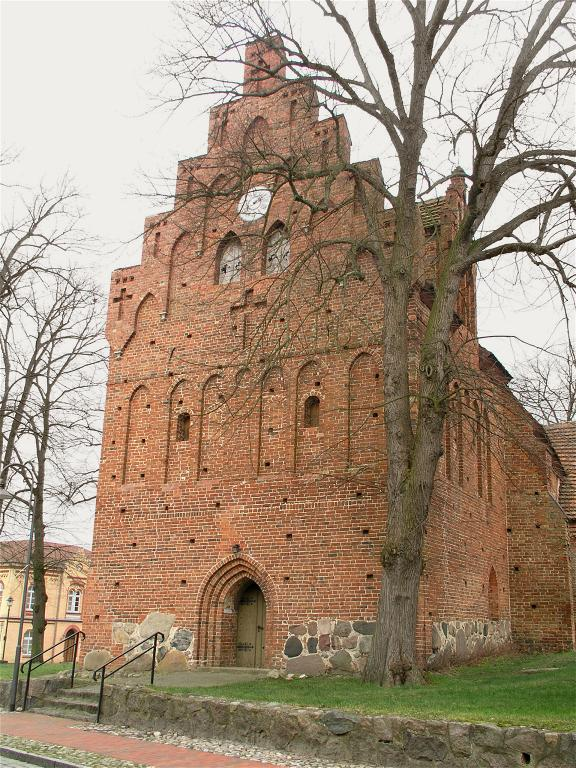 Brüel, Mecklenburg, Germany: church, photo 2007